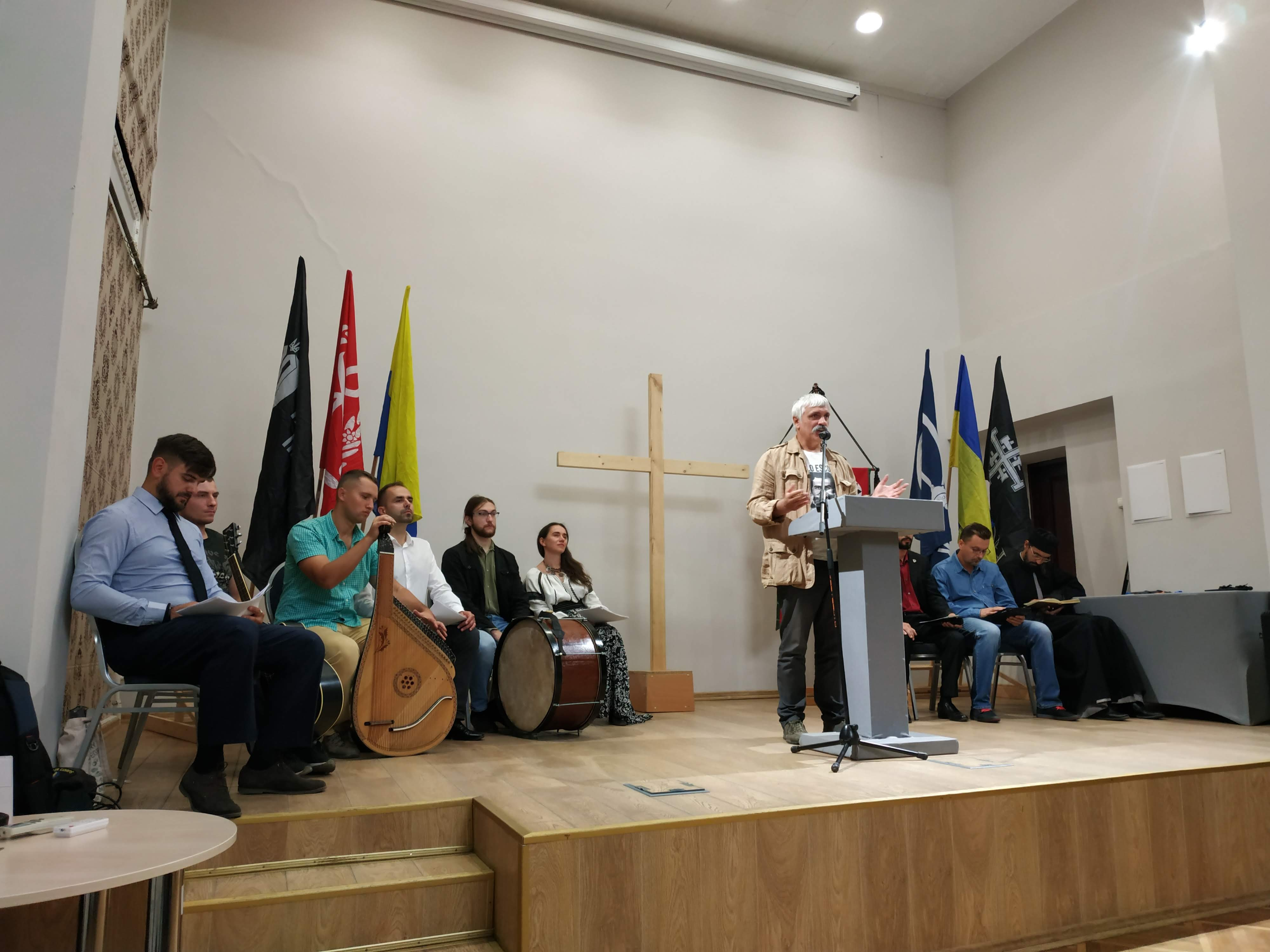 Korczyński at Ecclesia 2019